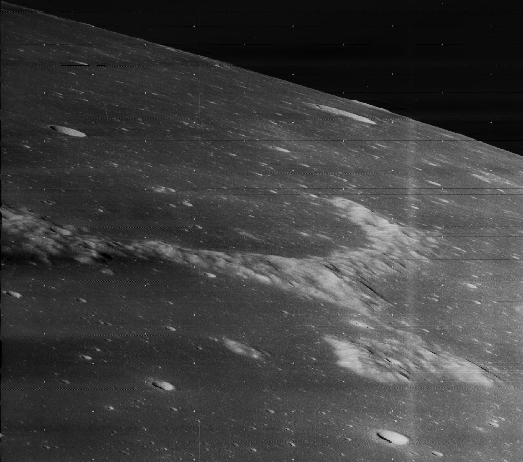 Oblique view of Wichmann R crater (semicircle of hills) on the moon, facing southwest. Wichmann crater is out of view to the left. The crater near the horizon is Flamsteed A, on the right horizon is Letronne F, and on the left horizon are hills of Letronne itself.